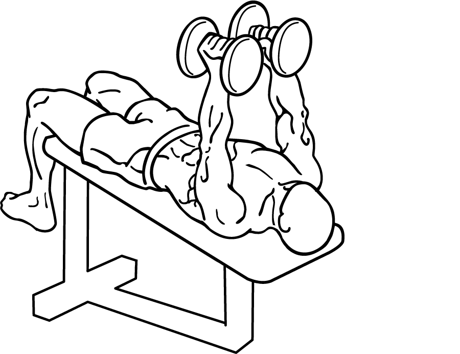 an exercise of chest